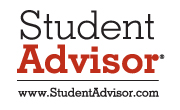 logo